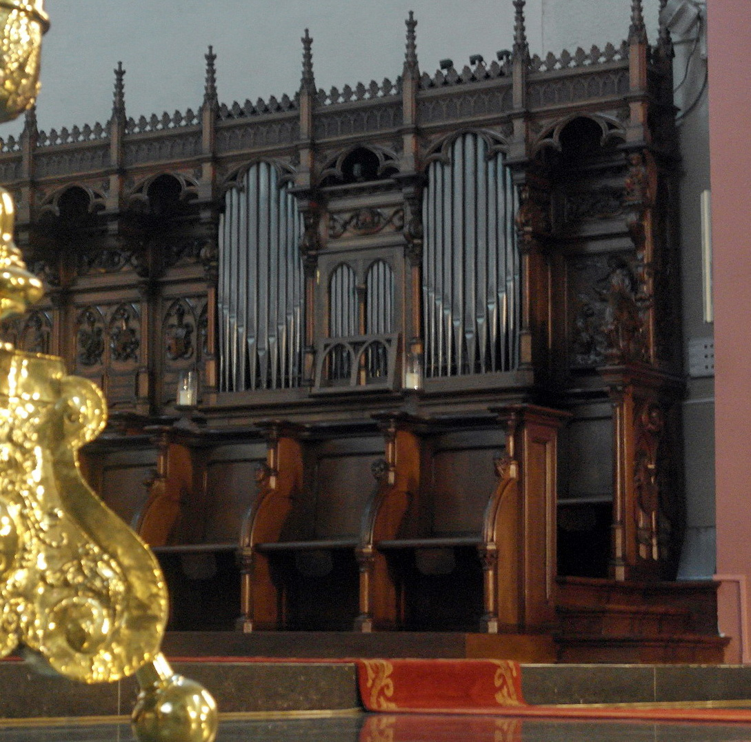 View of 19th-century choir stalls and a built-in organ in the Basilica of Saint Servatius in Maastricht, the Netherlands. The choir stalls were acquired from Saint Bonaventura's, the Third Franciscan Church in Maastricht, demolished in 1971.